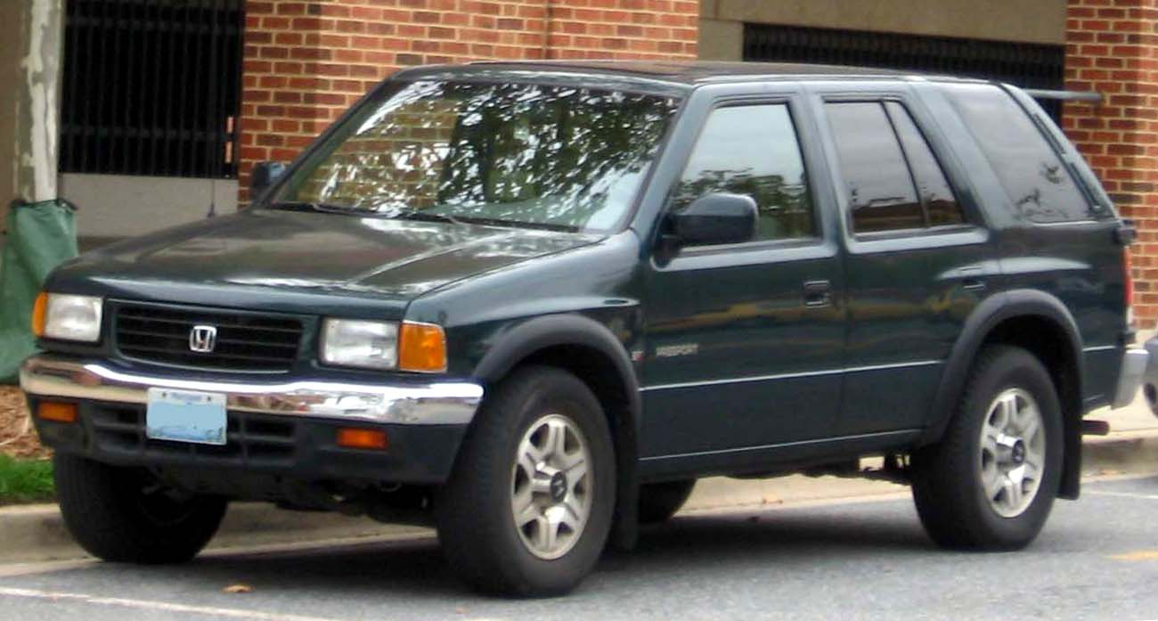 1993-1997 Honda Passport photographed in USA.